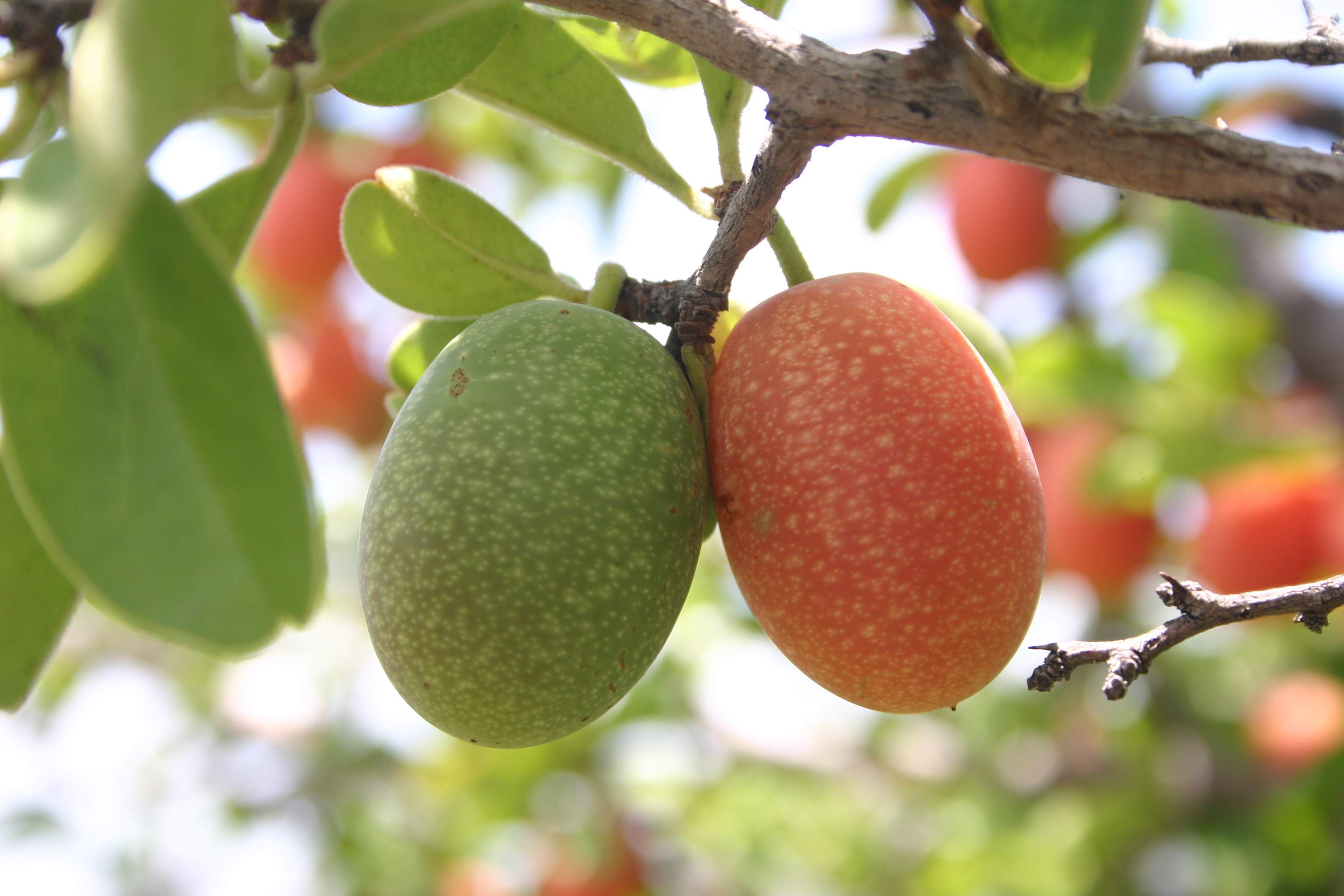 Ximenia caffra at Hamerkop, Magaliesberg, South Africa